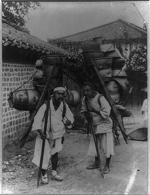 Korean porters carrying onggi (earthenware pots) around the turn of the 20th century in Seoul